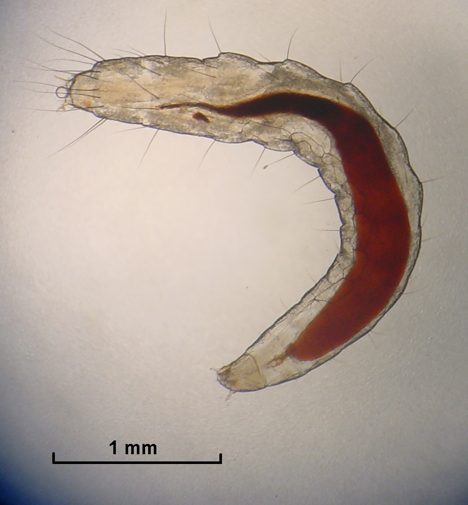 Microscopic image of a flea larva. Red area is ingested blood.